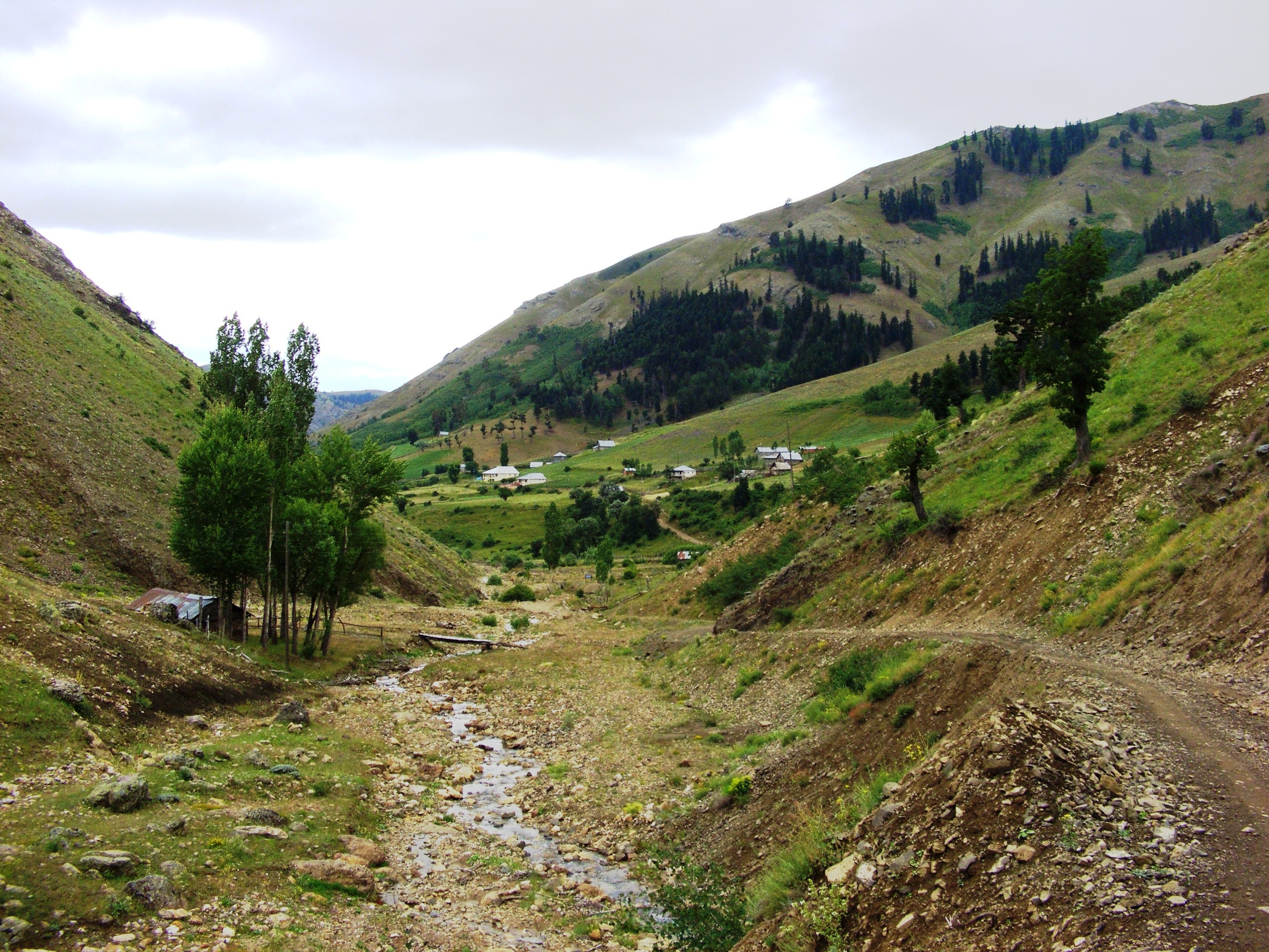 Elmacik (formerly Havarna), a village in Alucra District of Giresun Province in Turkey. Elmacik is located in the south end of Giresun adjacent to Gumushane Province.